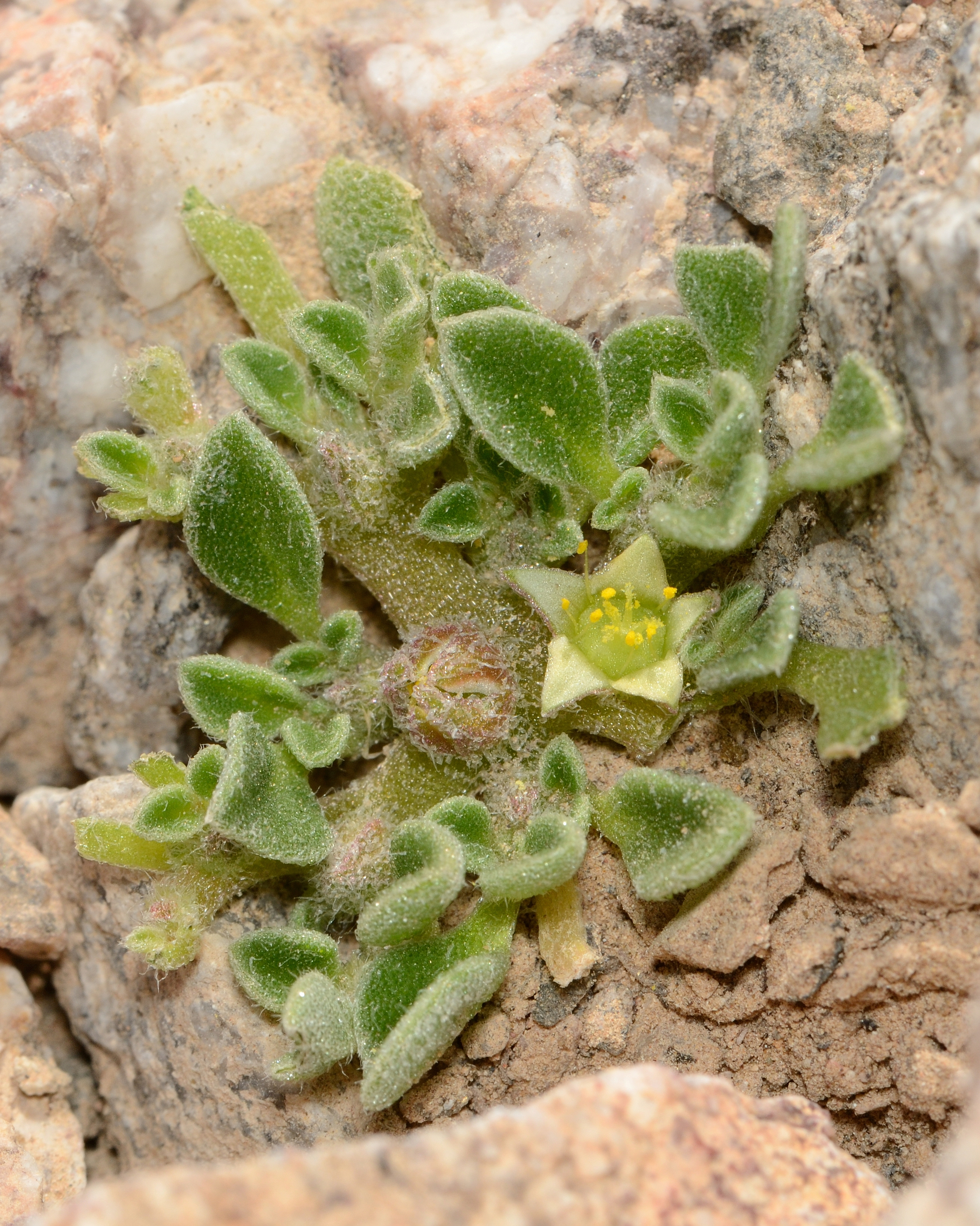 Aizoon canariense, Nahal Zfahot, Eilat Mountains, Israel, January 18, 2013.